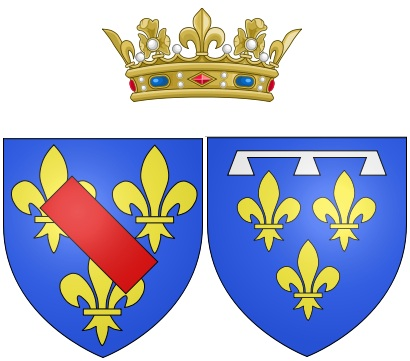 Arms of Bathilde d'Orléans (known as the Duchess of Bourbon) as Princess of Condé